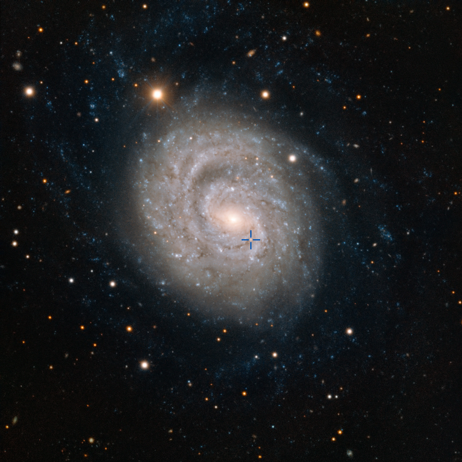 This image from ESO’s Very Large Telescope at the Paranal Observatory in Chile shows NGC 1637, a spiral galaxy located about 35 million light-years away in the constellation of Eridanus (The River). In 1999 scientists discovered a Type II supernova in this galaxy and followed its slow fading over the following years. The position of the supernova is marked.